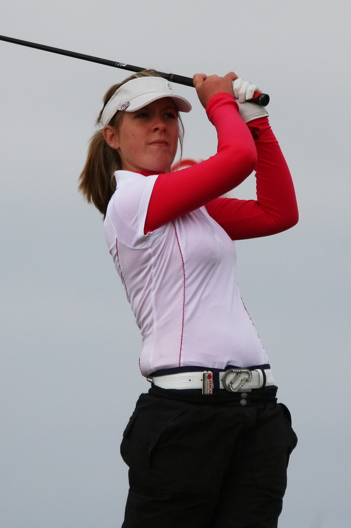 CARNOUSTIE, SCOTLAND - JULY 28: Lauren Taylor of England watches her tee shot on the 16th hole during the first round of the 2011 Ricoh Women's British Open at Carnoustie on July 28, 2011 in Carnoustie, Scotland. (Photo by Wojciech Migda)